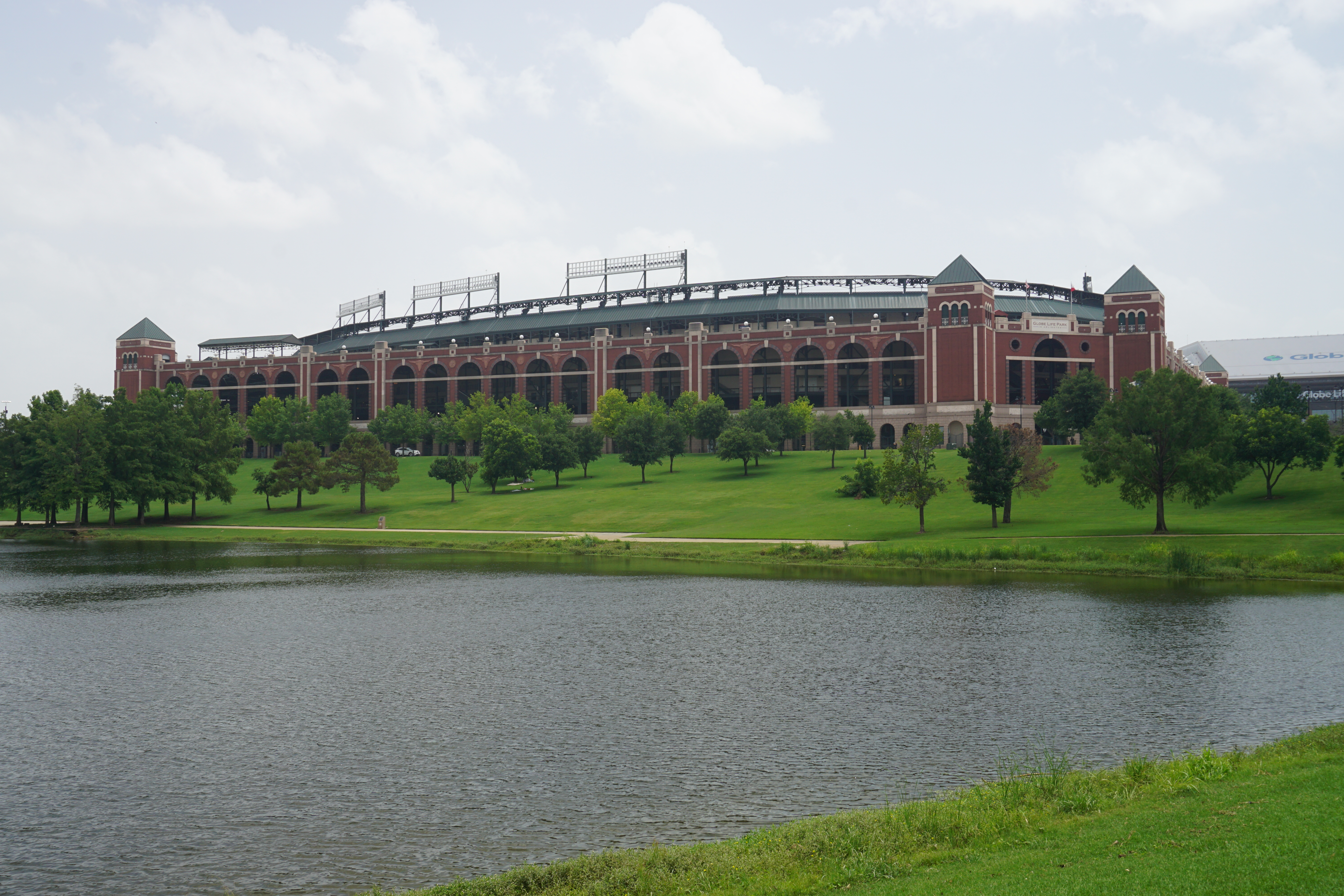 Globe Life Park in Arlington as viewed from Richard Greene Linear Park in Arlington, Texas (United States).